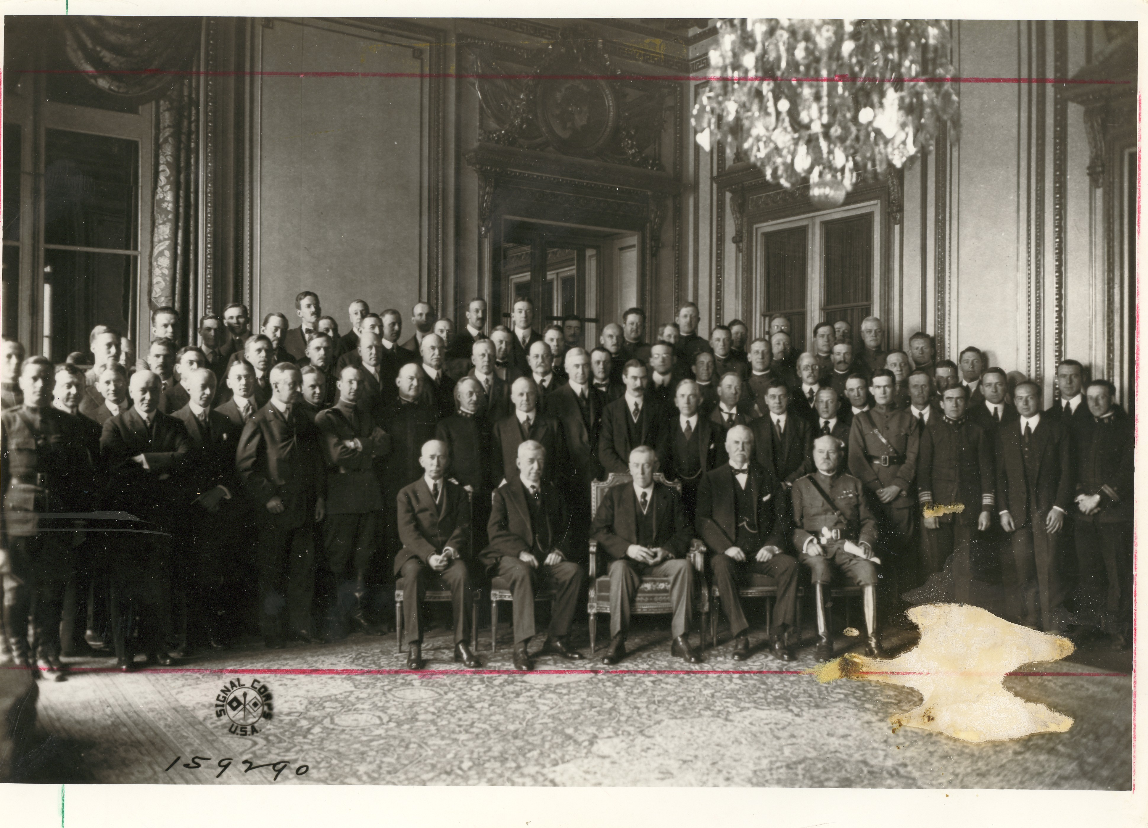 Local Accession Number: CTG 00018 Description: Photograph of President Wilson and his advisors in Paris. Photographer: U.S. Signal Corps Source: Potomac Books, Cary T. Grayson Collection Size: 8x10 Medium: Print, Black and White Date: 1919